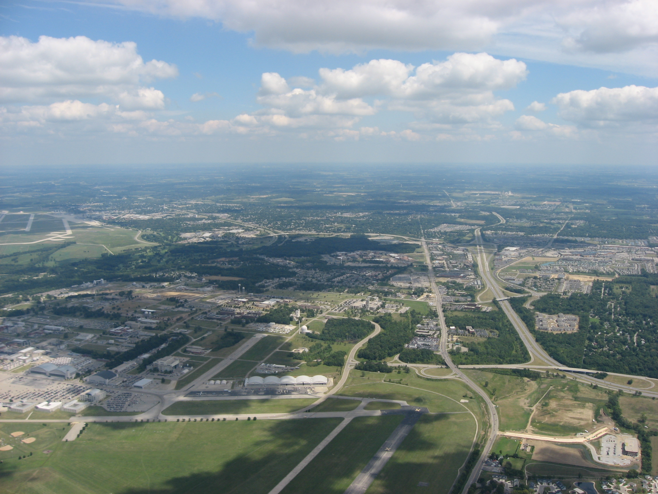 Aerial view of Fairborn, a city in Greene County, Ohio, United States, taken from over Wright-Patterson Air Force Base. Interstate 675 is visible as the major highway on the right side. Picture taken from a Diamond Eclipse light airplane at an altitude of 3,480 feet MSL and a bearing of approximately 80º.